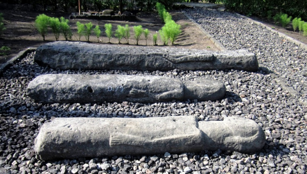 Laying statue menhirs from Gunungkidul neolithic era, found near burial stone, thought to symbolise the deceased. Location: Bleberan site, Playen, Southeastern Yogyakarta.